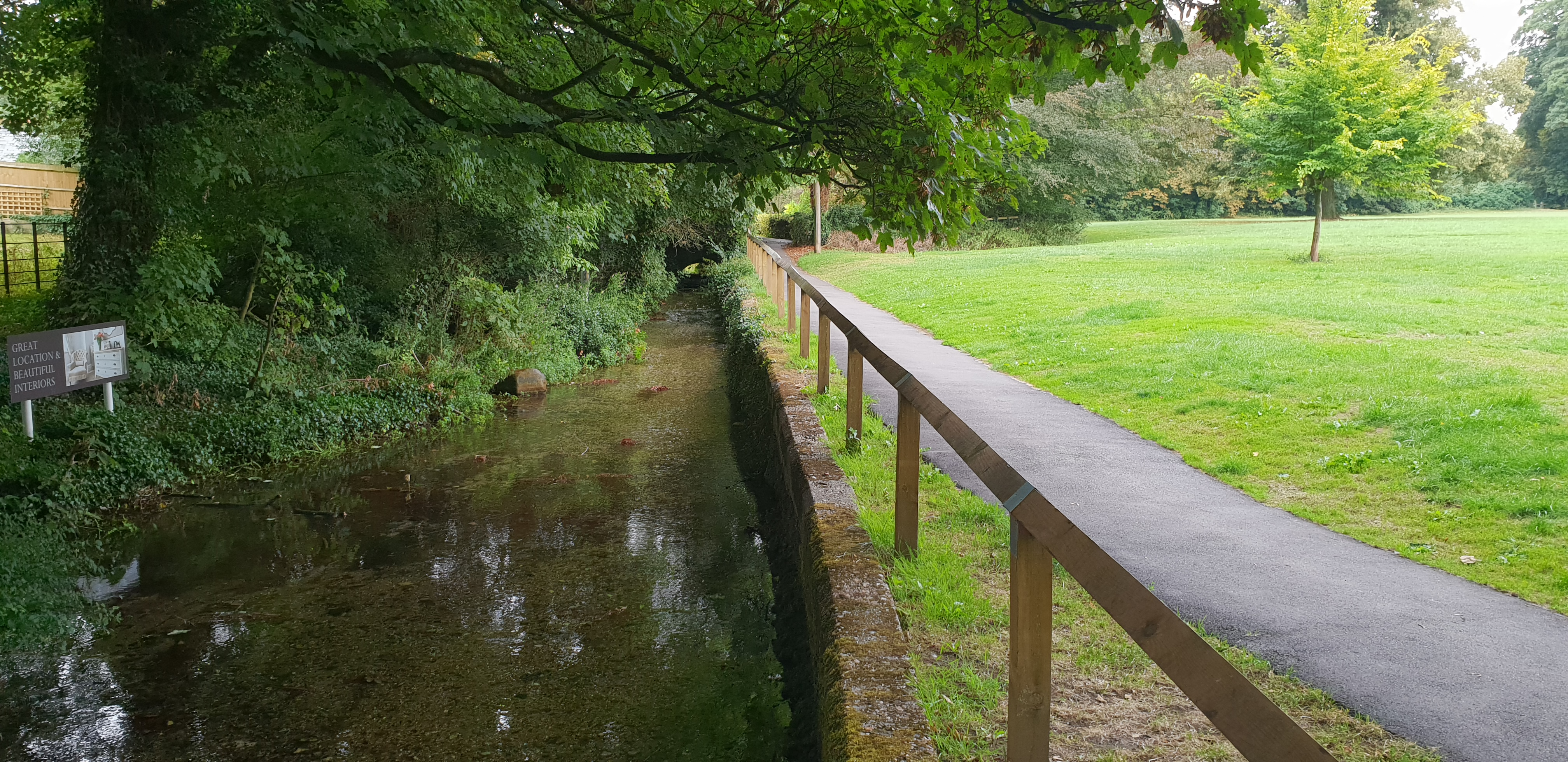 The Heron Stream and the Witchell park in Wendover, Buckinghmshire, UK. The stream feeds water to the Wendover Arm of the Grand Union Canal.